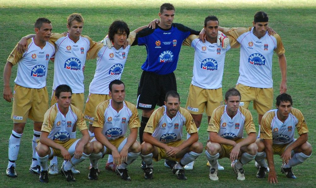 Newcastle United Jets line-up for the 2008 A-League Grand Final.